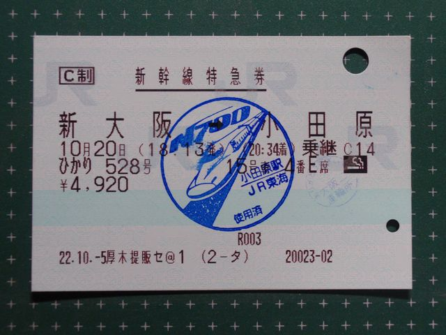 Shinkansen Superexpress ticket of Hikari No.528